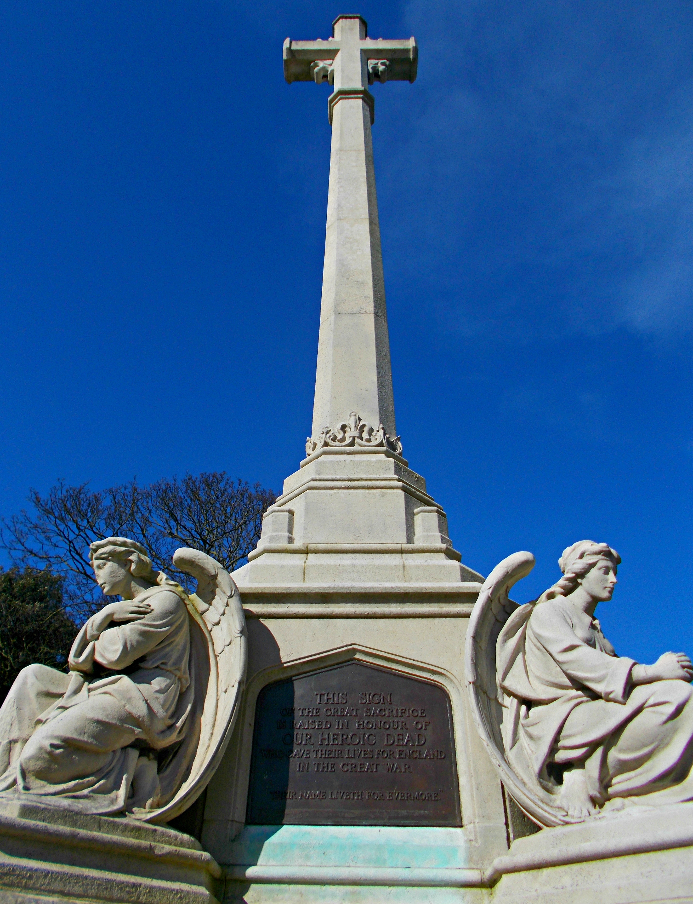 Sutton War Memorial including angels, Manor Park, Sutton, Surrey, Greater London